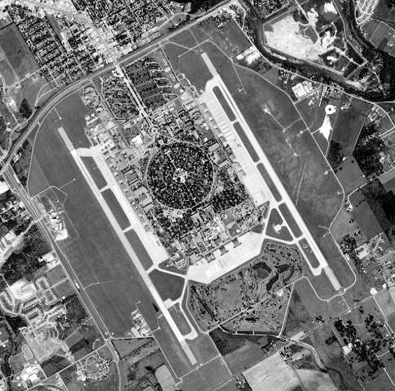 Randolph AFB, TX – 27 Jan 1996